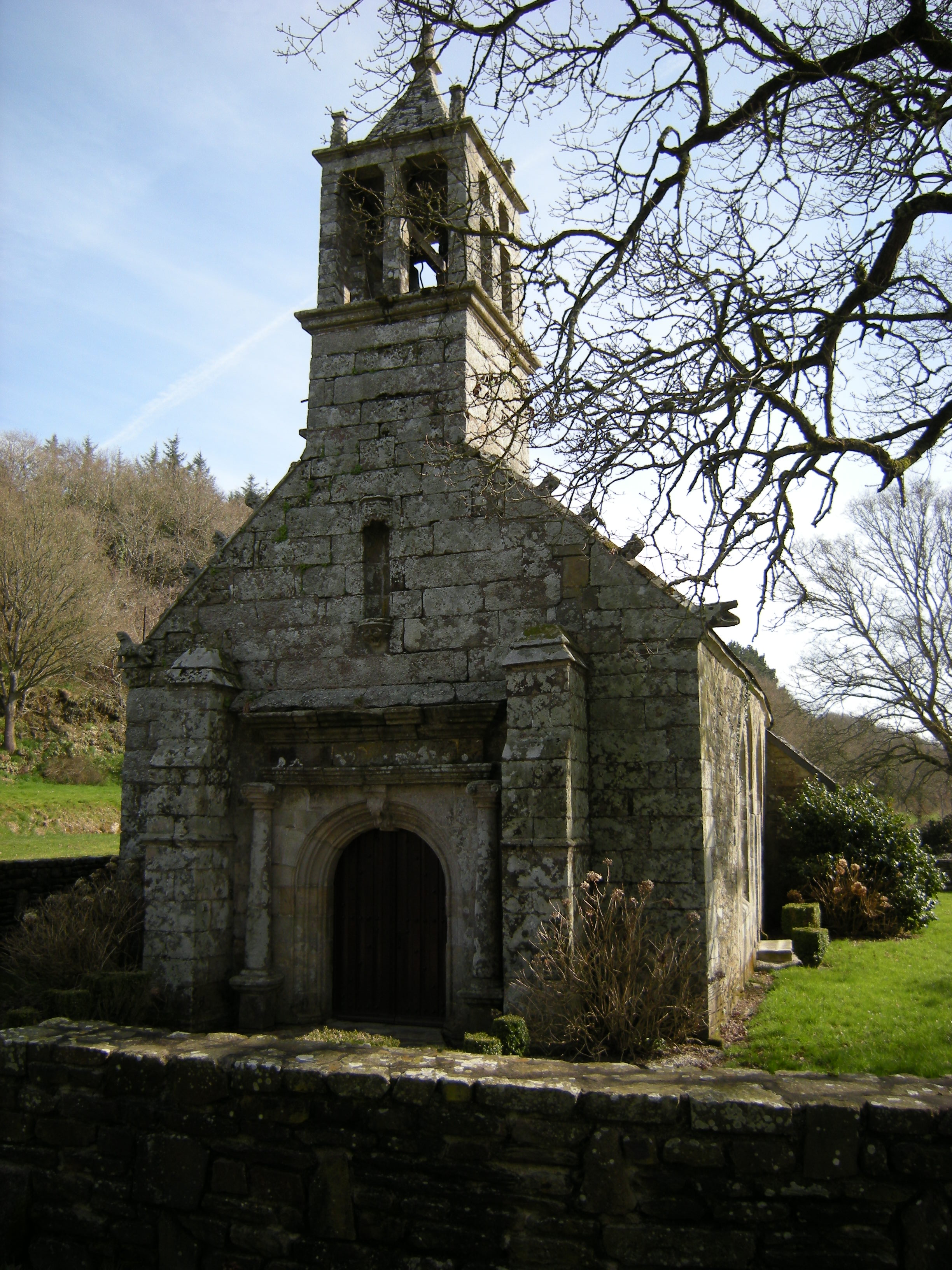 Sainte-Catherine Chapel, Plounévézel, Finistère, Britanny, France Built in 1615